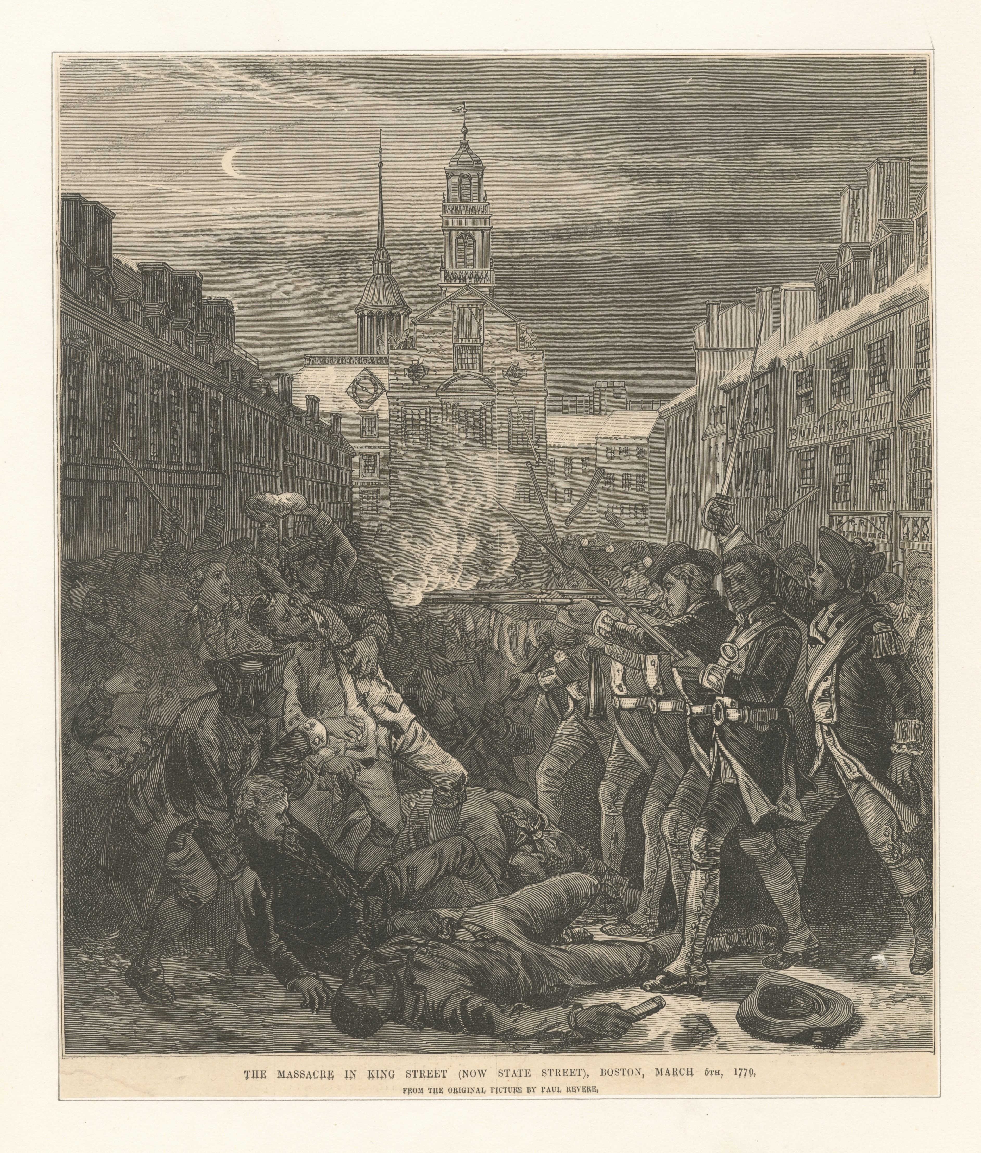 EM2197